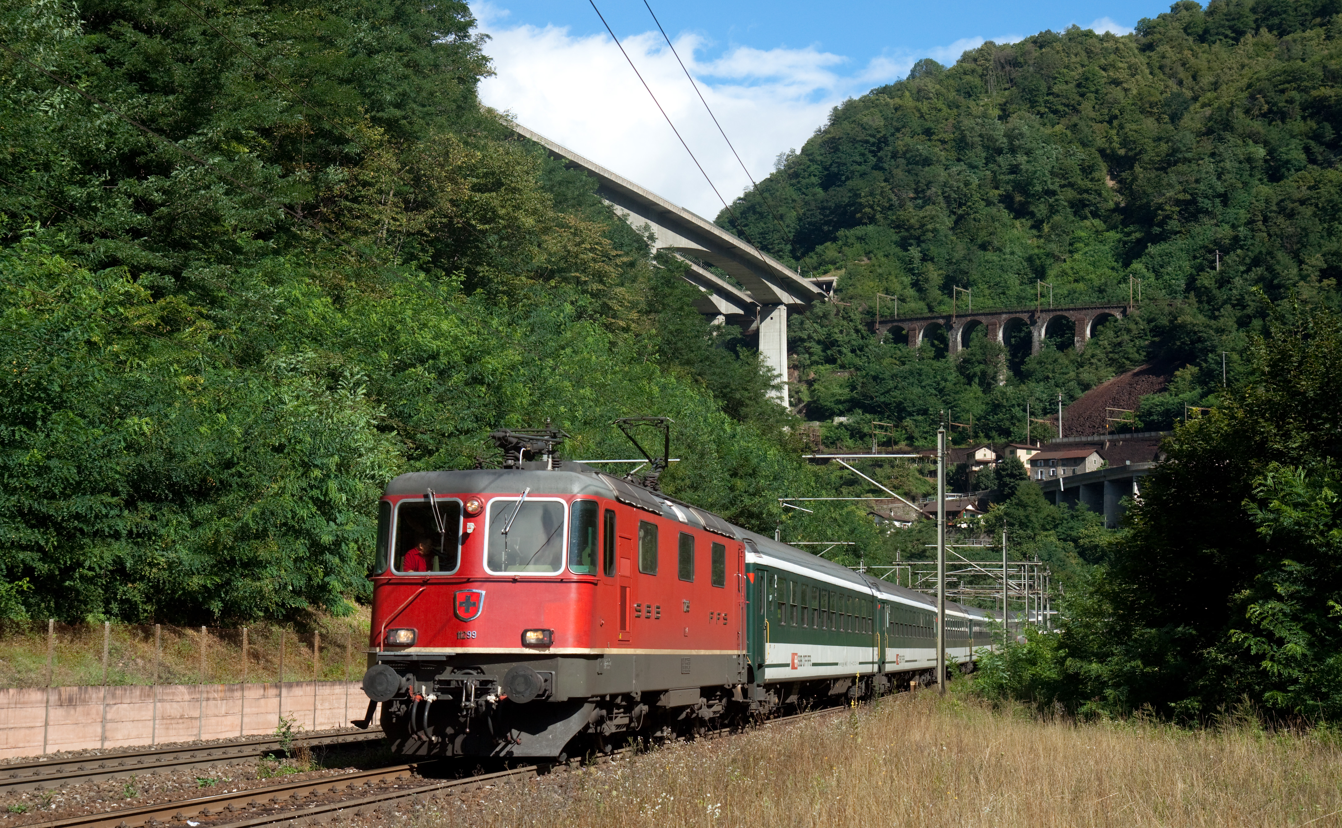 This interregio train pulled by an SBB-CFF-FFS Re 420 has just left the Biaschina loops. In the background visible is the Gotthard freeway (bridge at the top), the old Gotthard main road (turn near the houses) and two more levels of the Gotthard railway line.